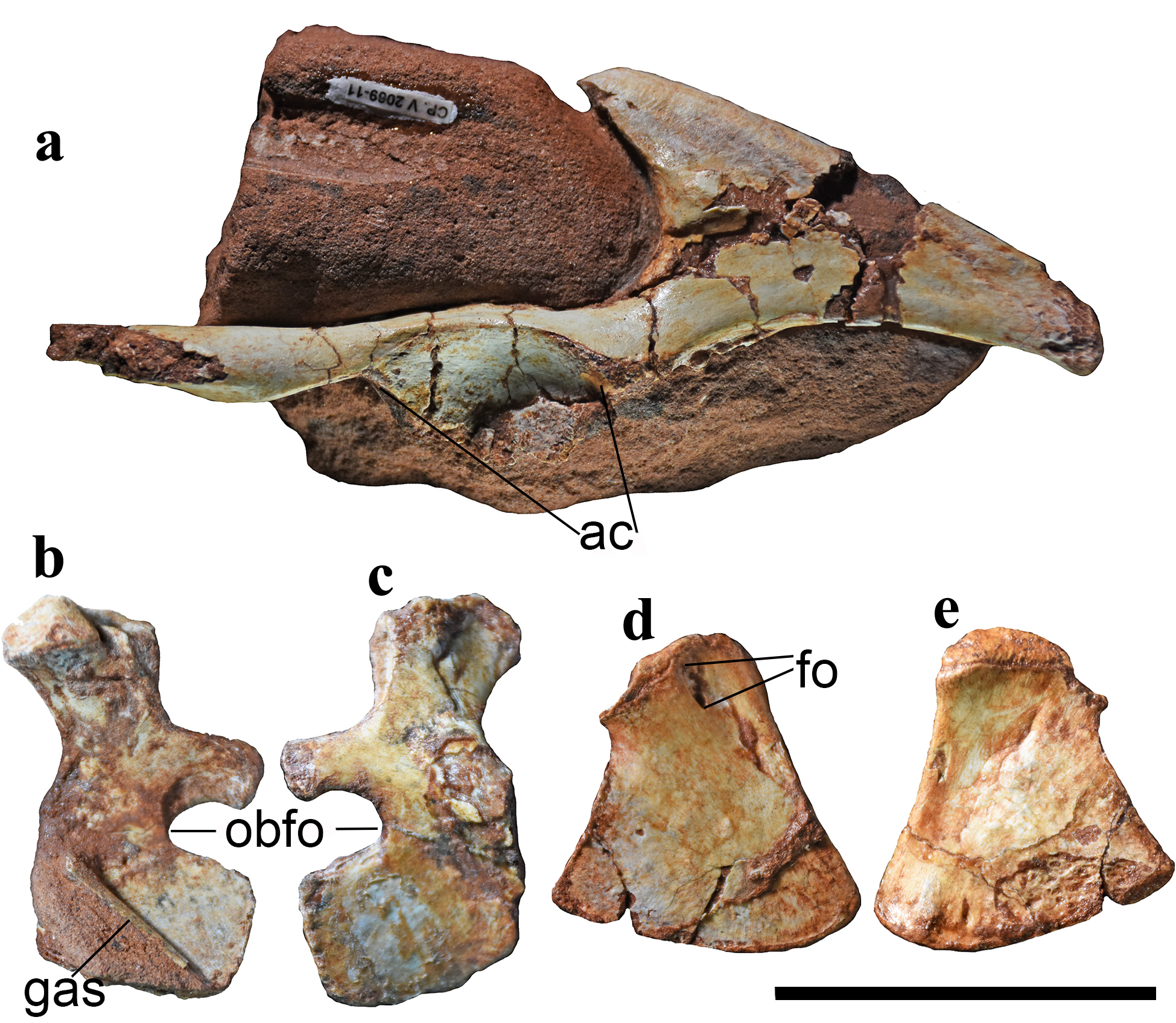 Figure 8. Keresdrakon vilsoni gen. et sp. nov., pelvis (CP.V 2869, part of the holotype), (a) left ischium in lateral view; right pubis in (b) medial and (c) lateral views; right ischium in (d) lateral and (e) medial views. Abbreviations: ac - acetabulum, fo - foramen, gas - gastralia, obfo - obturator foramen. Scale bar = 50mm.